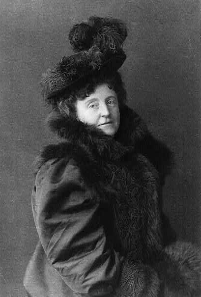 Frances Hodgson Burnett.